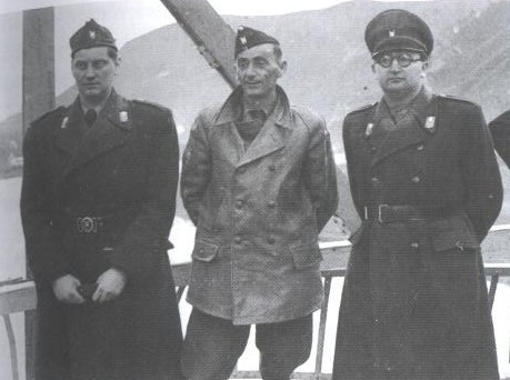 Eugen "Dido" Kvaternik, Lieutenant Colonel Jure Francetić, and Mladen Lorković at the bridge across the Drina river in Zvornik at the end of Operation Trio.